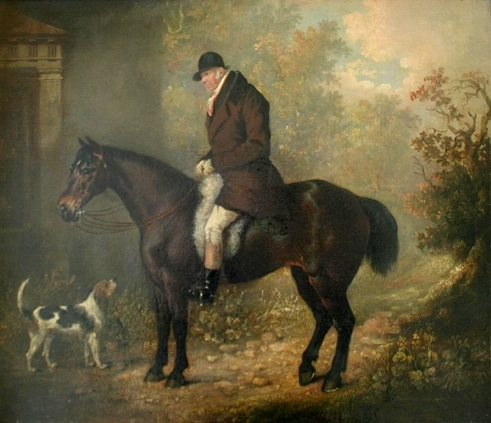 Charles Loraine Smith on a horse by William Brown in 1834